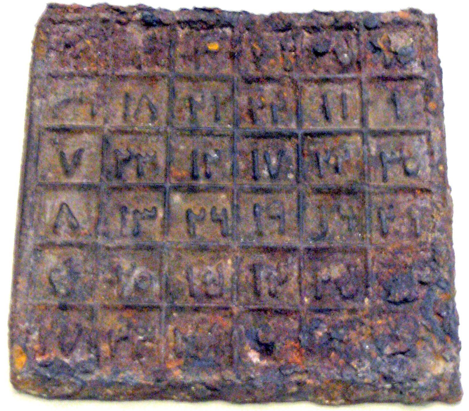 Iron plate with Arabic numbers arranged in a 6 × 6 grid to form a magic square adding up to 111 horizontally, vertically and diagonally 28 4 3 31 35 10 36 18 21 24 11 1 7 23 12 17 22 30 8 13 26 19 16 29 5 20 15 14 25 32 27 33 34 6 2 9 Yuan Dynasty (1206-1368). Currently housed at the Shaanxi History Museum in Xi'an. Discovered at Xi'an, Shaanxi Province, 1956.